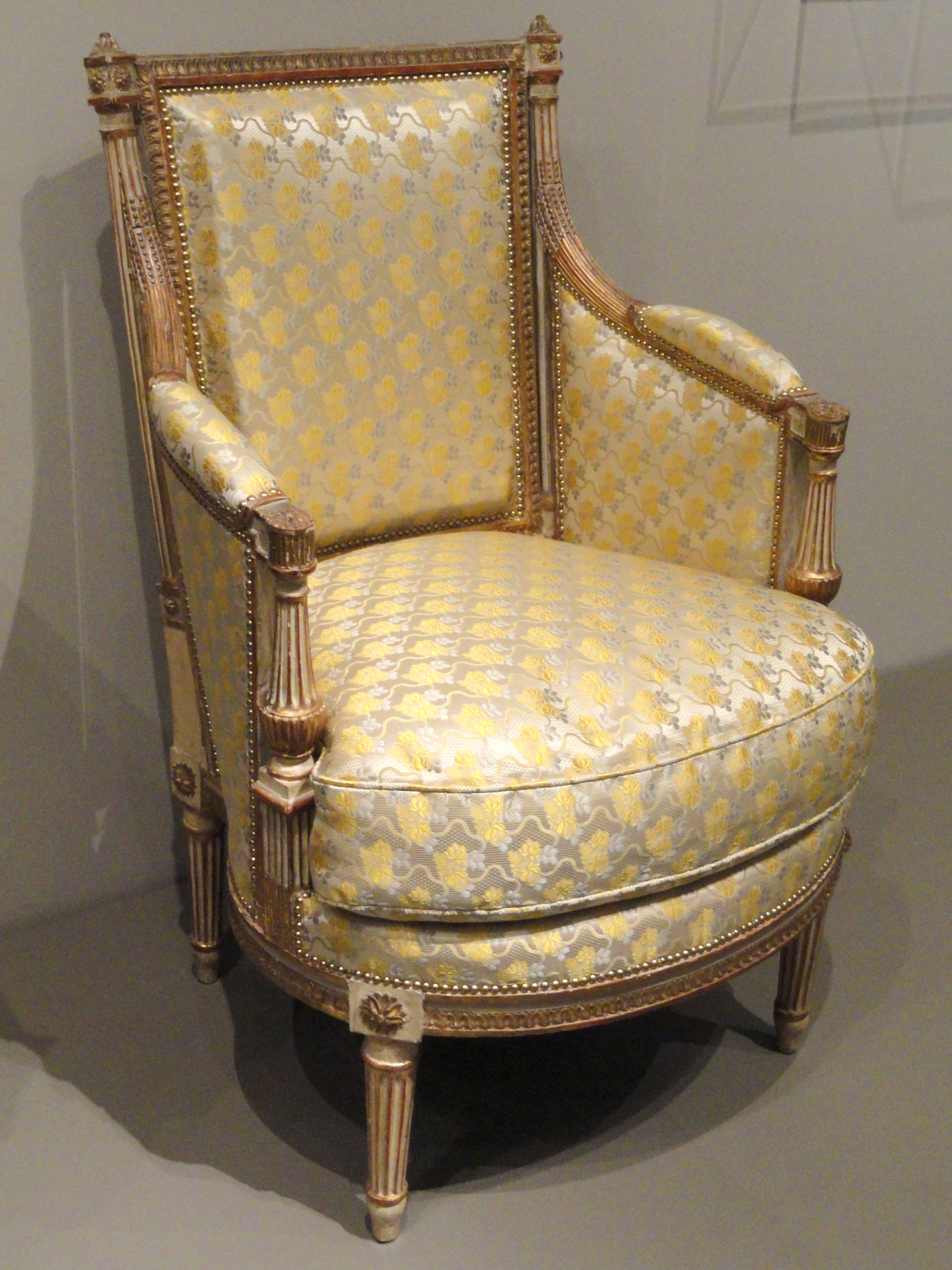 Exhibit in the Art Institute of Chicago, Chicago, Illinois, USA. This artwork is in the public domain because the artist died more than 70 years ago.